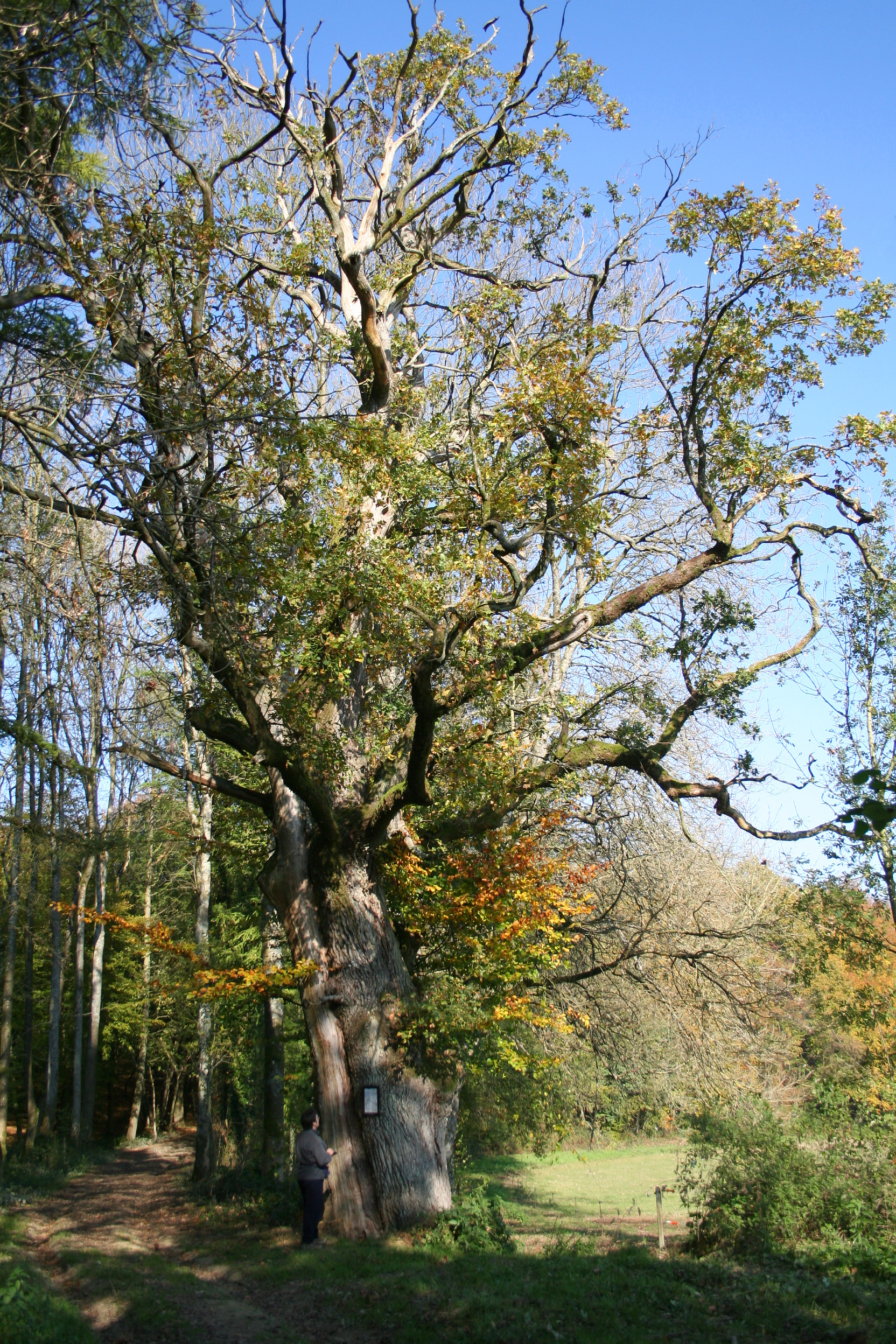 Barvaux-en-Condroz (Belgium), the "Chêne au Gibet" Quercus robur - Monumental tree which was about 400 years old and whose circumference measured at 1.50m soil reached 566 cm in 2007.